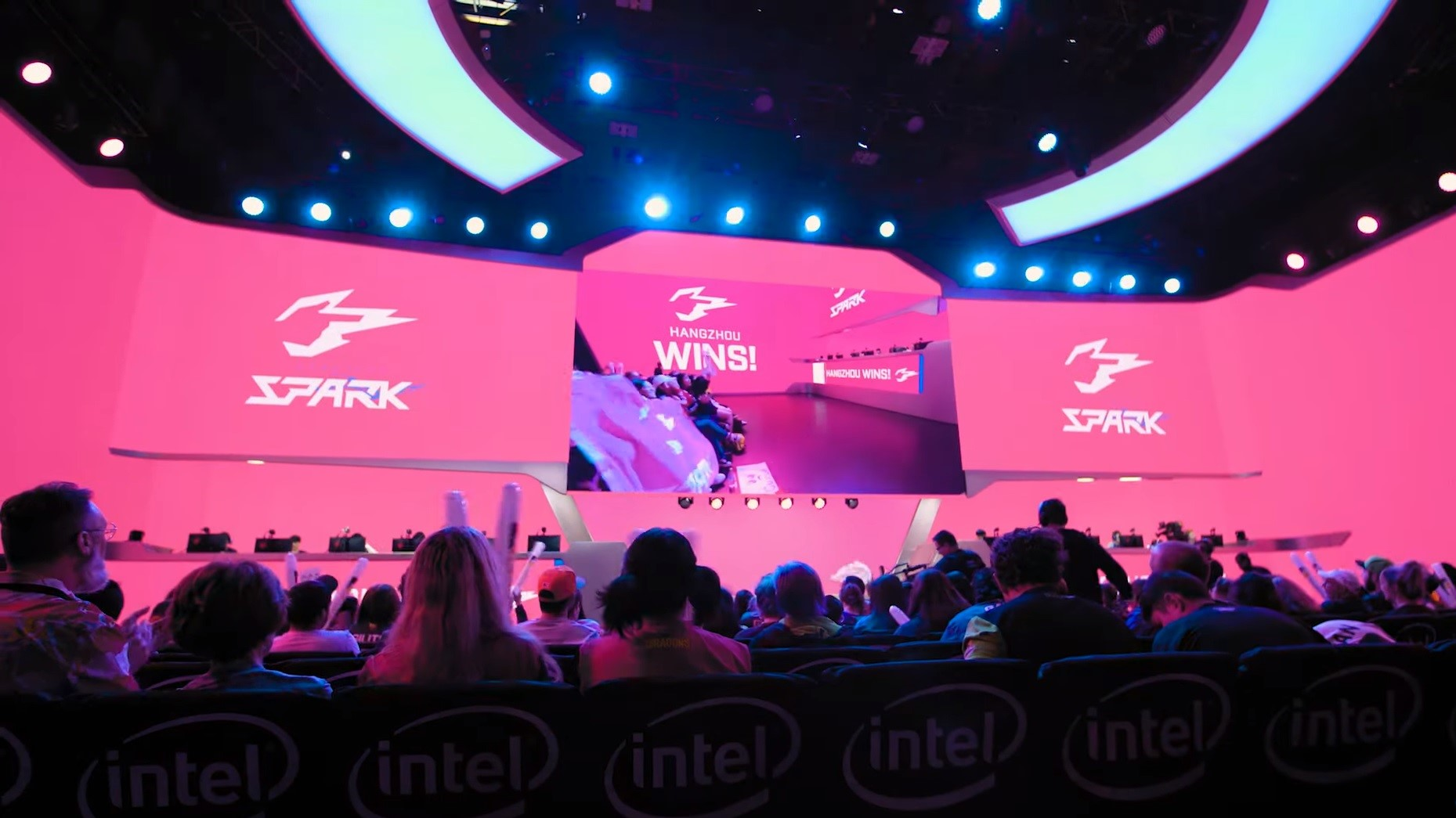 Hangzhou Spark win in 2019 Stage 3